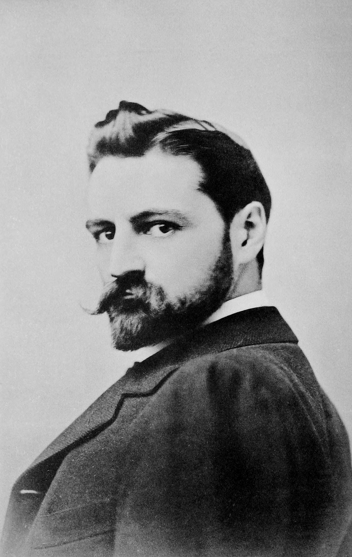 Serge Wolkonsky (Prince Sergey Volkonsky)